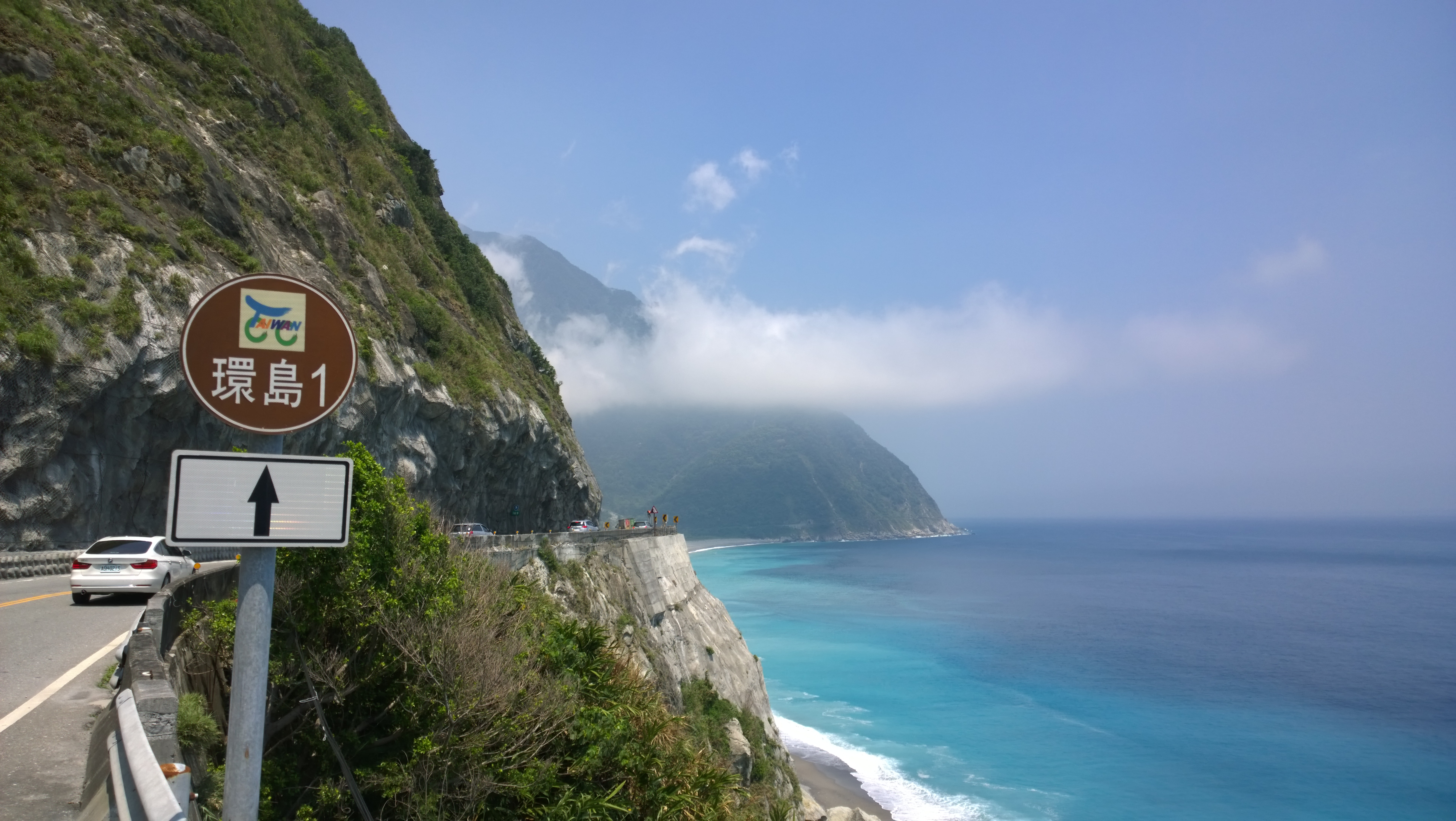 National Bicycle Route leading through Chingshui Cliff around the island of Taiwan.